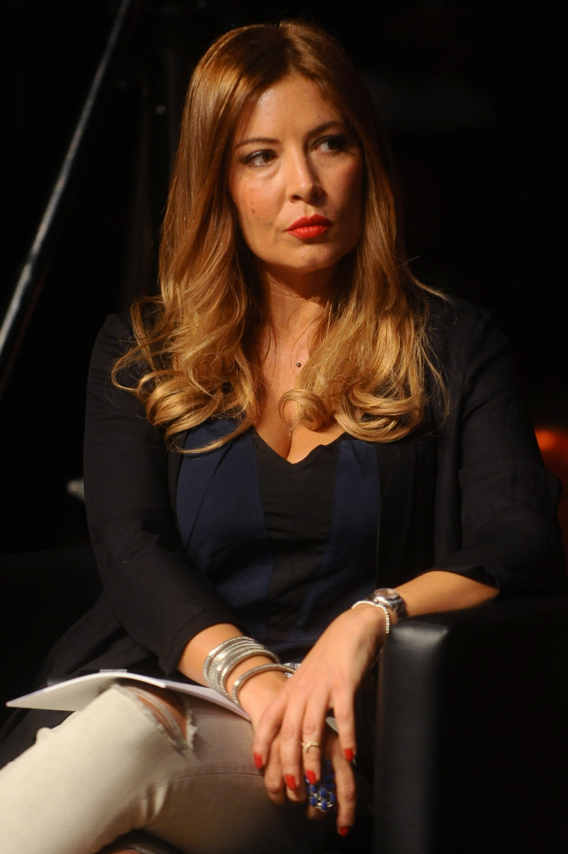 Selvaggia Lucarelli at the international Journalism Festival in Perugia